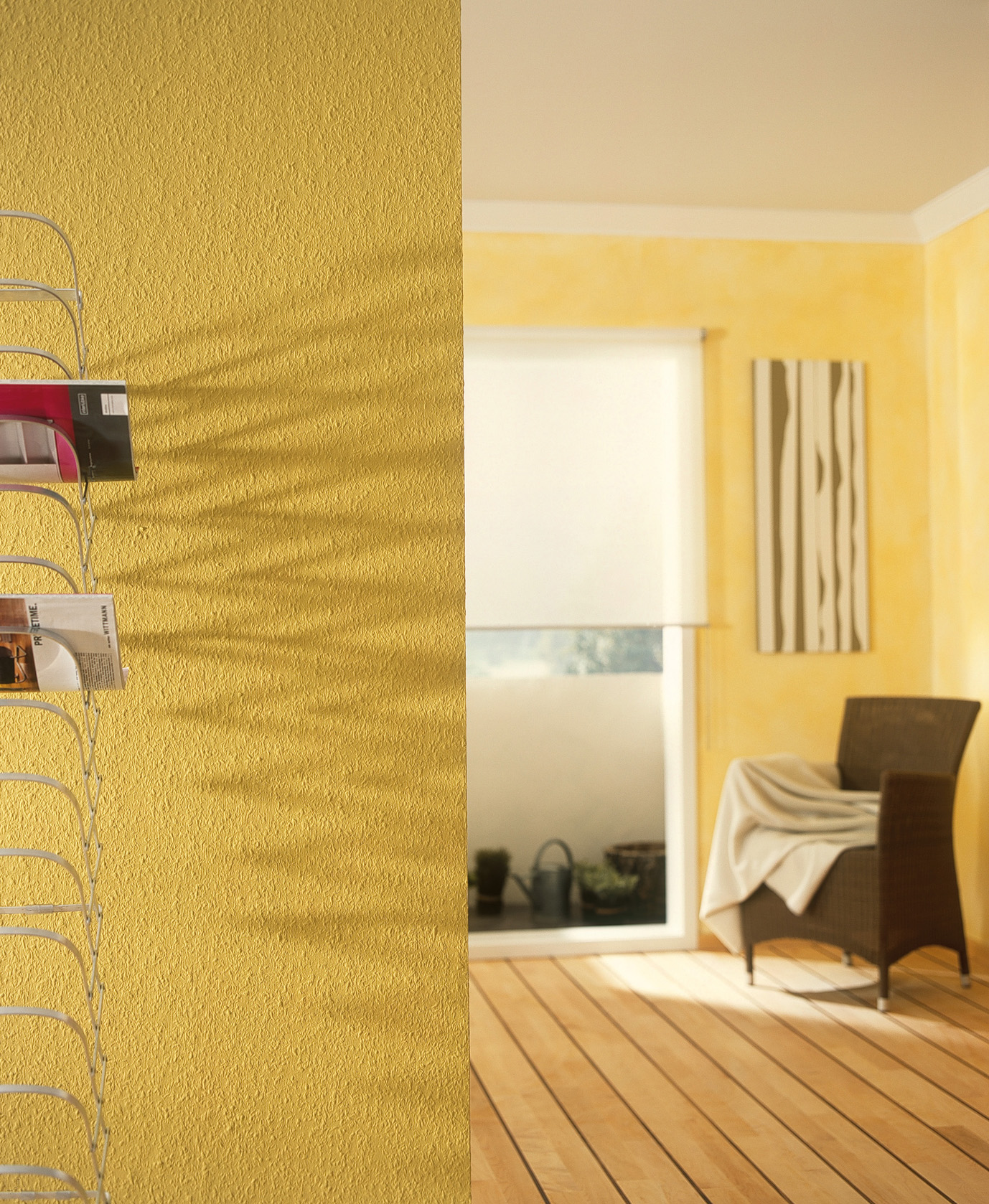 Structure of a woodchip wallpaper